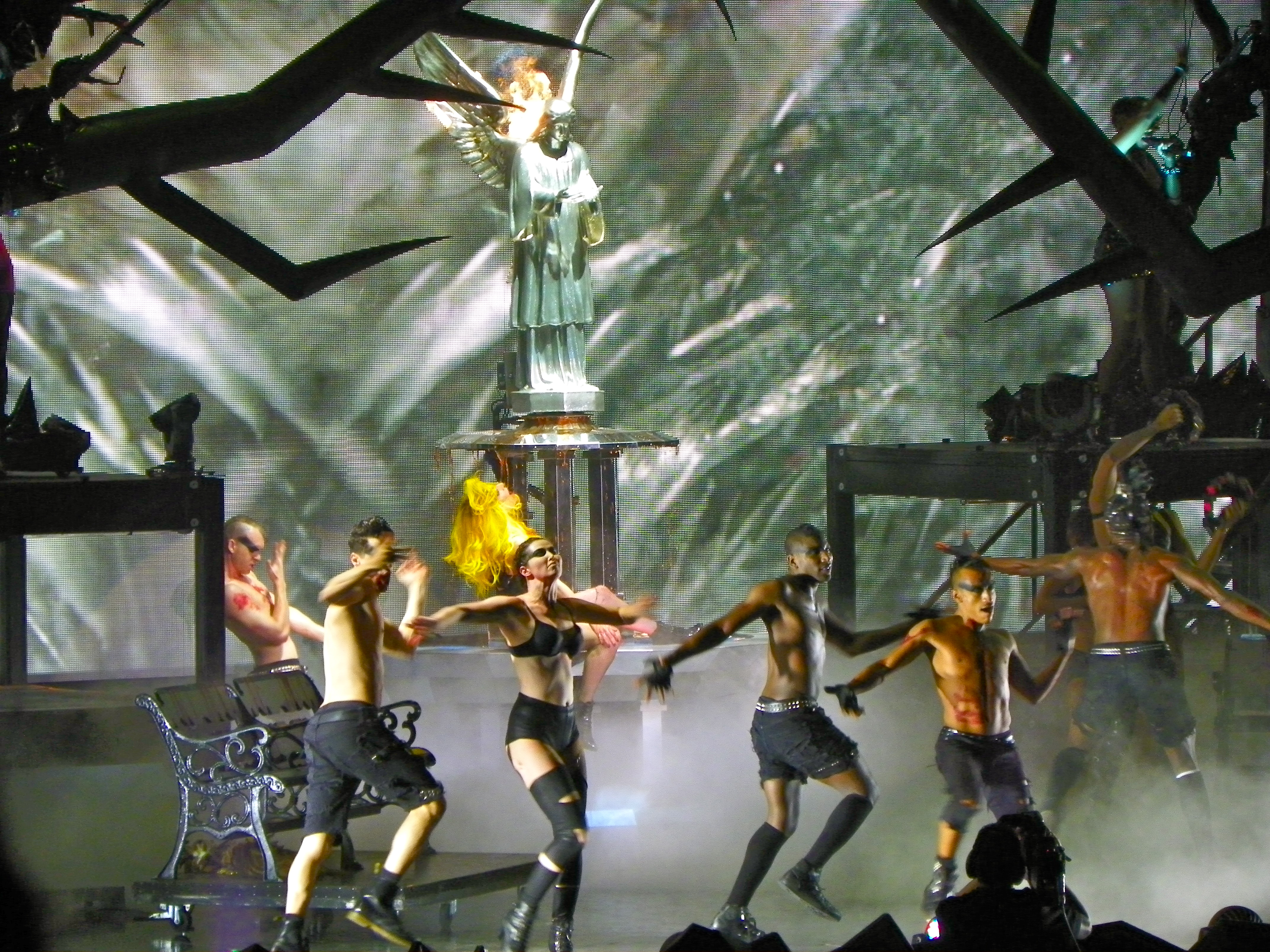 Scene Three (Forest) of Lady Gaga's The Monster Ball Tour (revamped version).